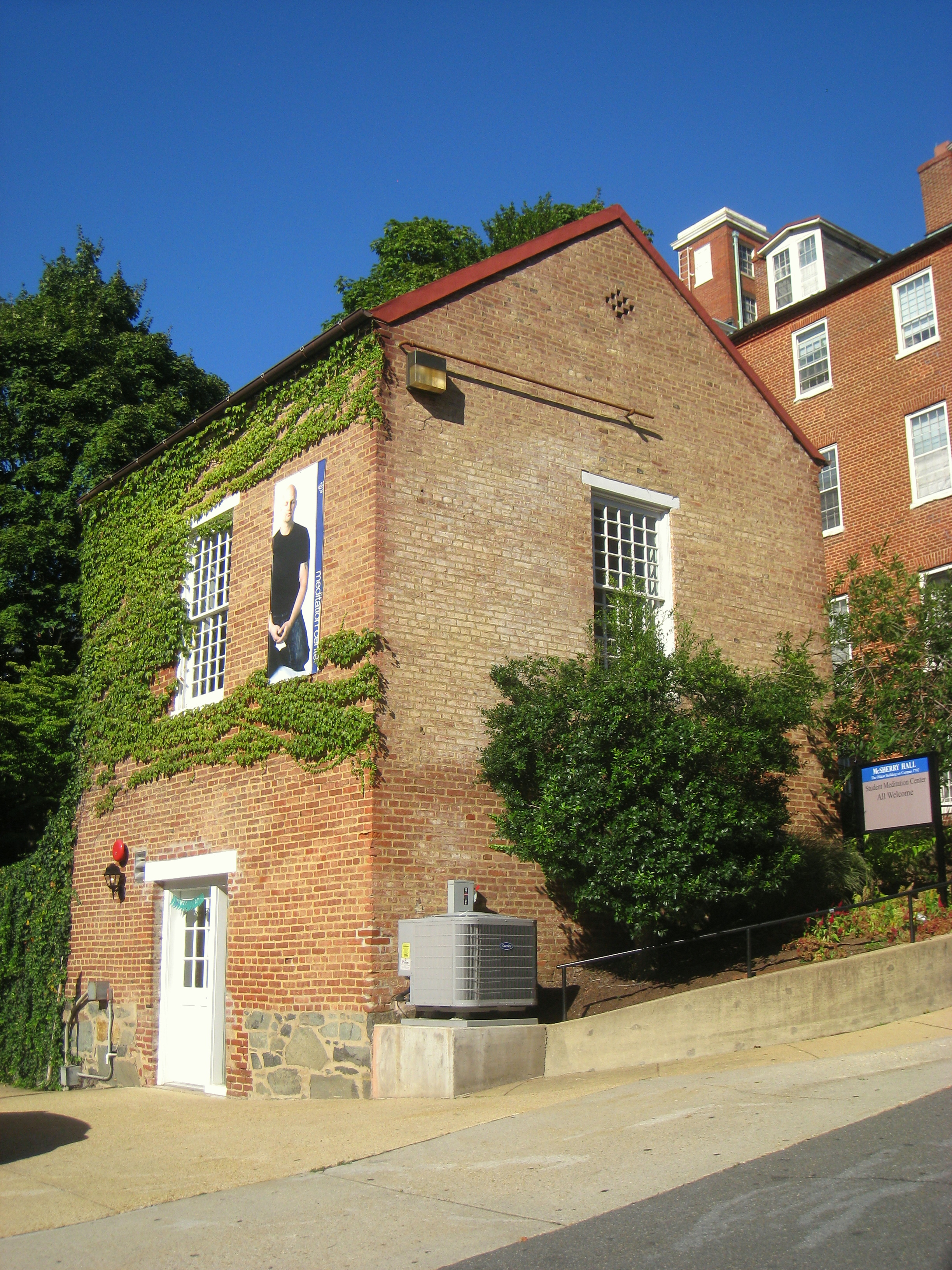 Georgetown University, Washington, DC, USA. McSherry Hall.